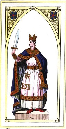 Baldwin III, Count of Flanders